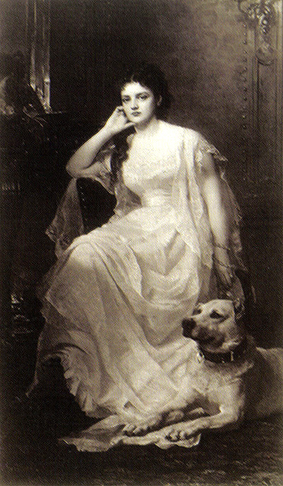 Princess Elisabeth Carolath-Beuthen, née countess Hatzfeldt (1839-1914)